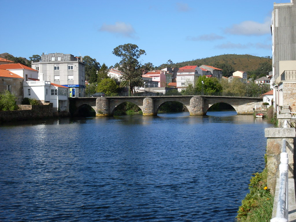 A Ponte do Porto bridge in Camariñas, A Coruña, Galicia, Spain